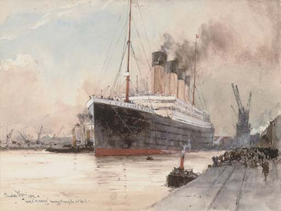 A painting of RMS Titanic (probably at Southampton).